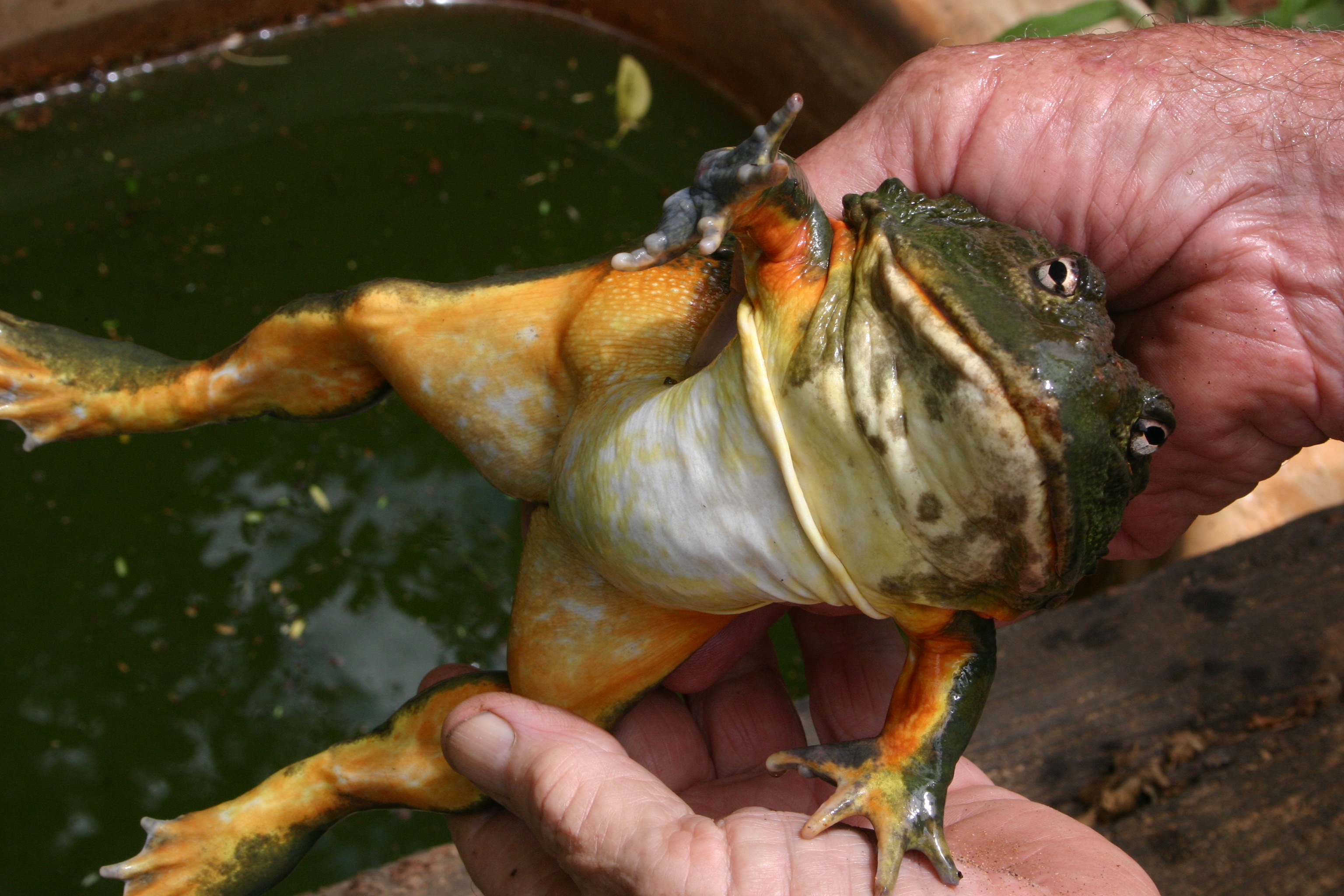 Pyxicephalus adspersus being handled, "Chucklenook", Honeydew, Johannesburg